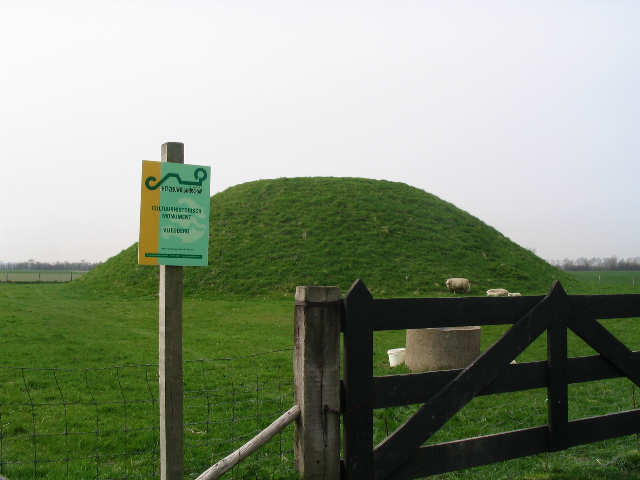 A "Vliedberg" close to Gapinge in the Province Zeeland of The Netherlands